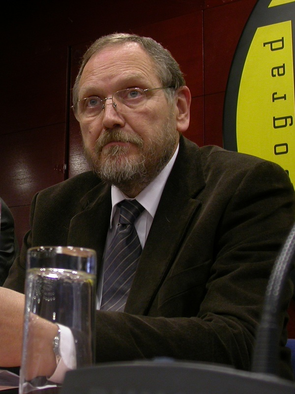 Former Serbian Minister Radomir Naumov